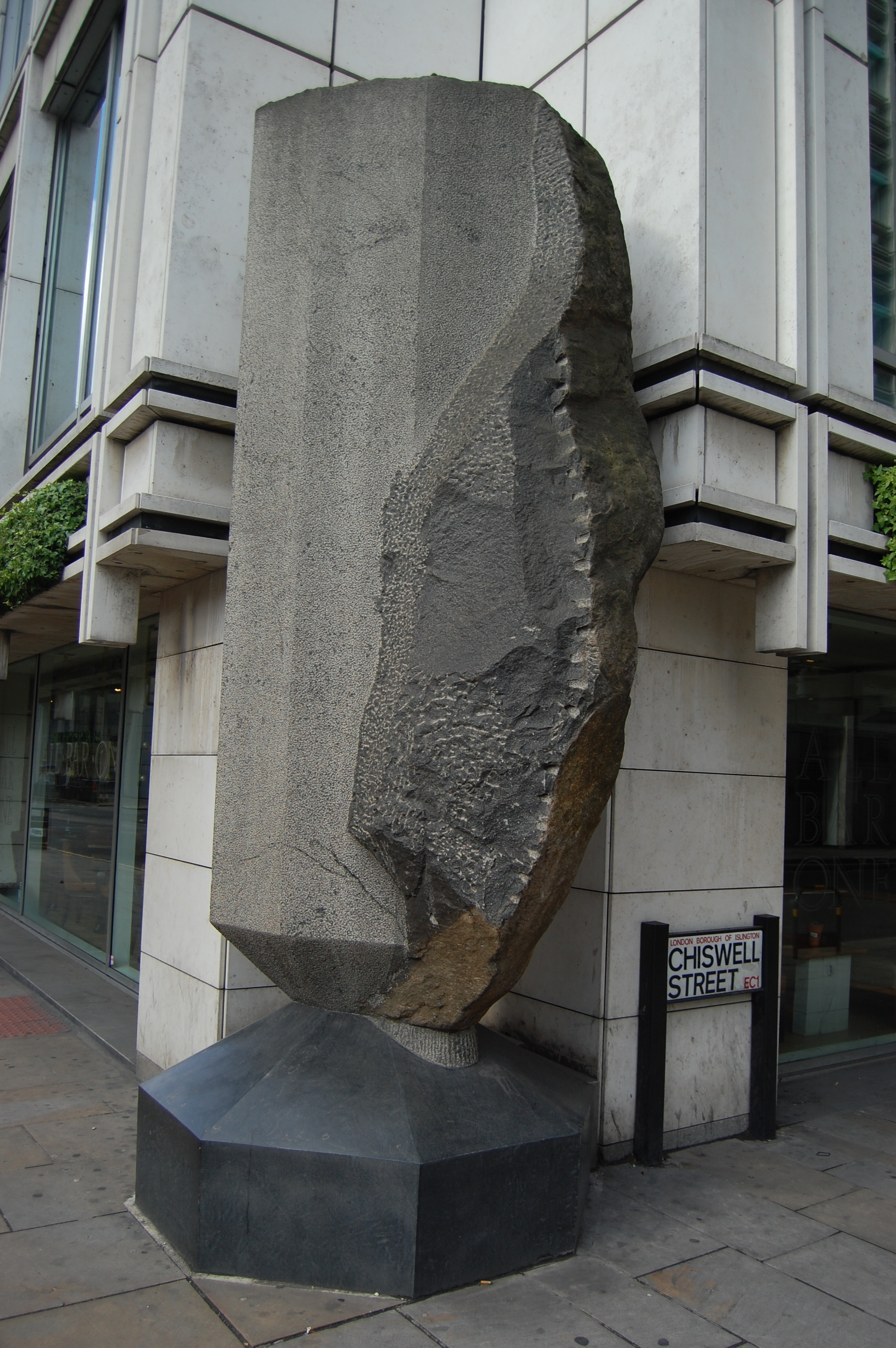 Stephen Cox sculpture with title 'Faceted Column', material is sandstone, erected in 1999. Junction of Chiswell Street and Finsbury Pavement.